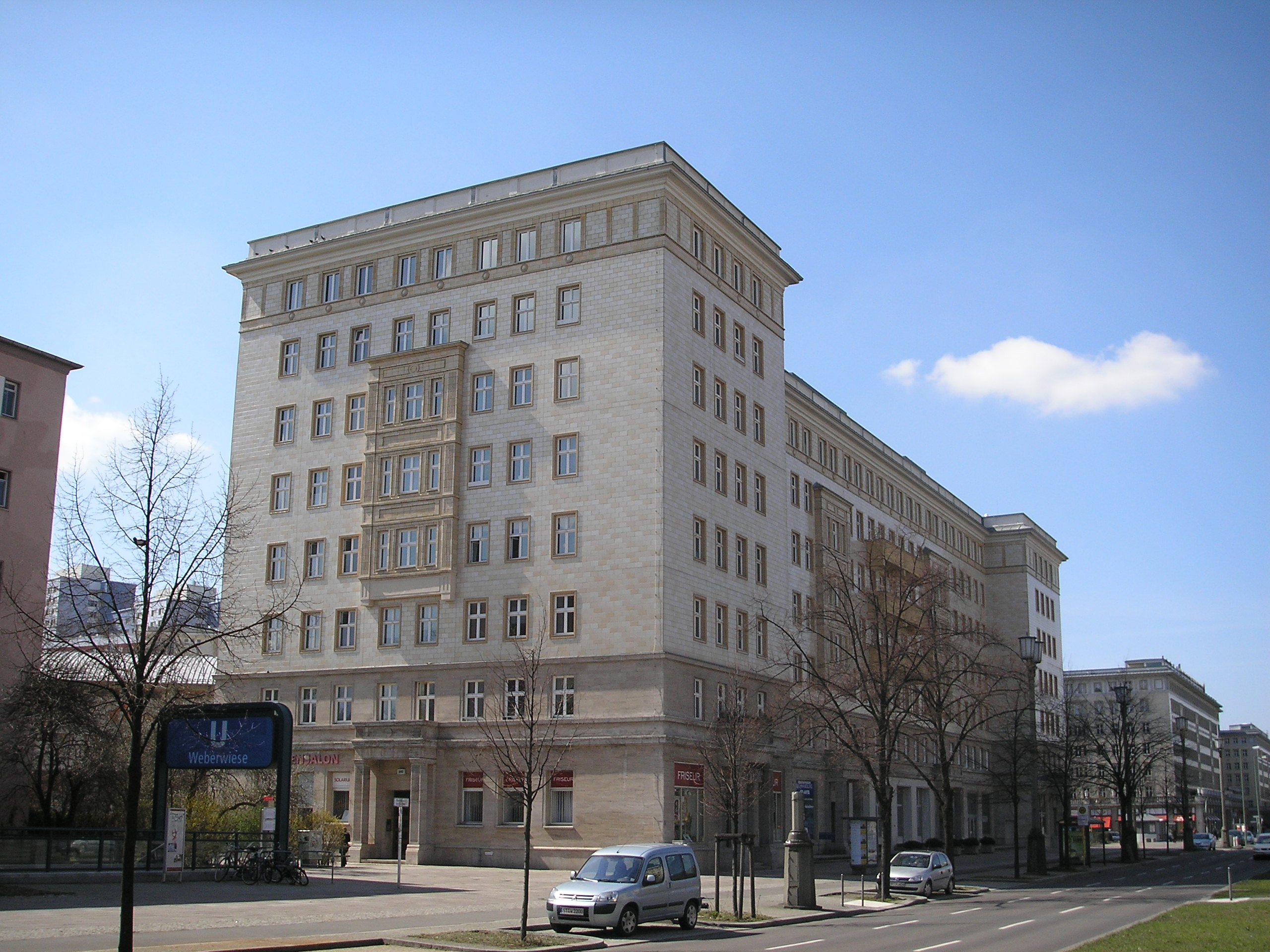 View on Block D South of Karl-Marx-Allee in Berlin. Architect Kurt Leucht, constructed around 1952.